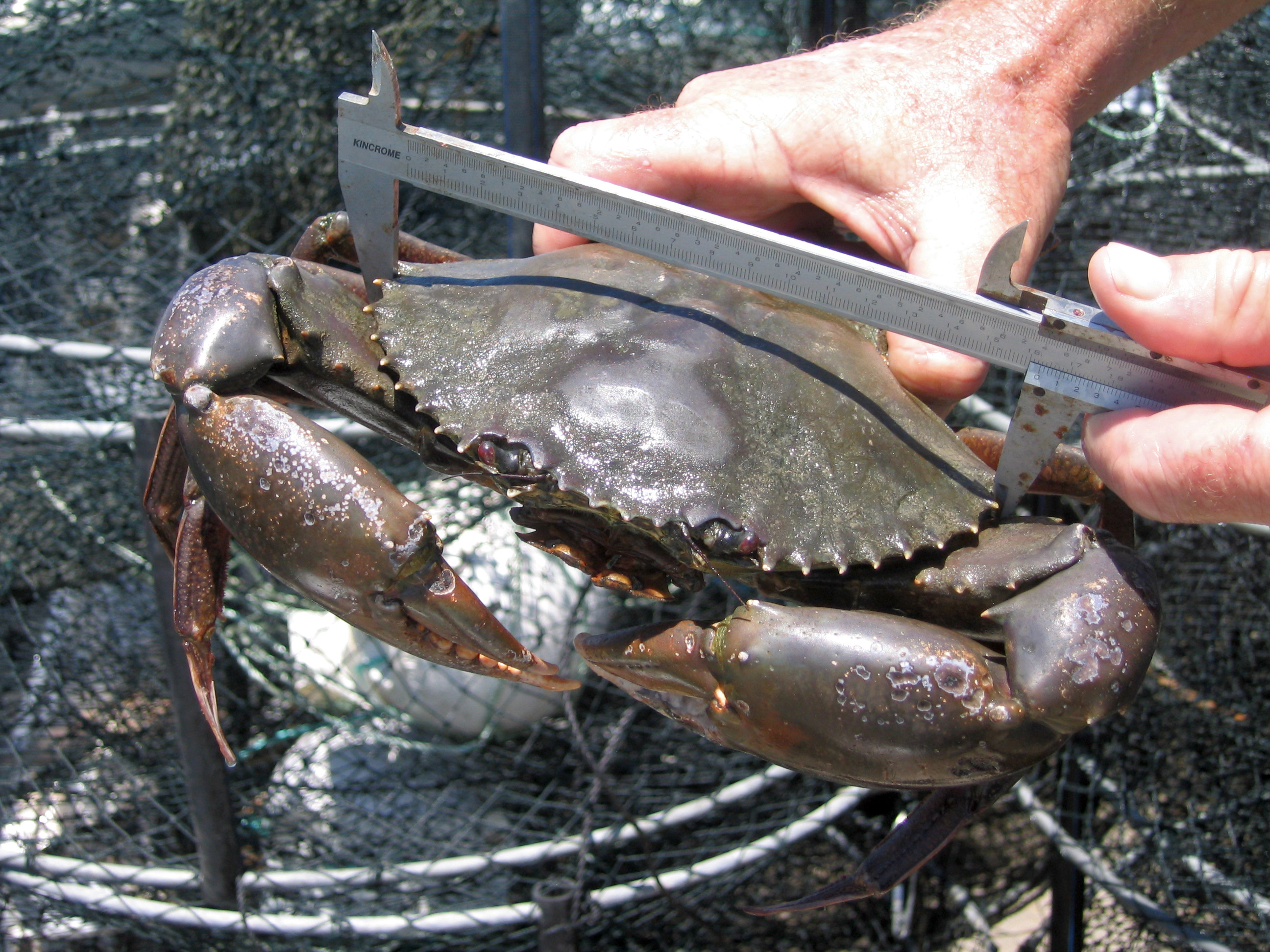 CSIRO Wealth from Oceans National Research Flagship scientists in collaboration with EPA Queensland are involved in a three year research program to evaluate the effectiveness of the expanded green zones in the Moreton Bay Marine Park. The Marine Park stretches 125 km from Caloundra to the Gold Coast and covers about 3400km². Since March 2009, 16 per cent of the park is designated as 'green zones' (where all fishing is excluded).